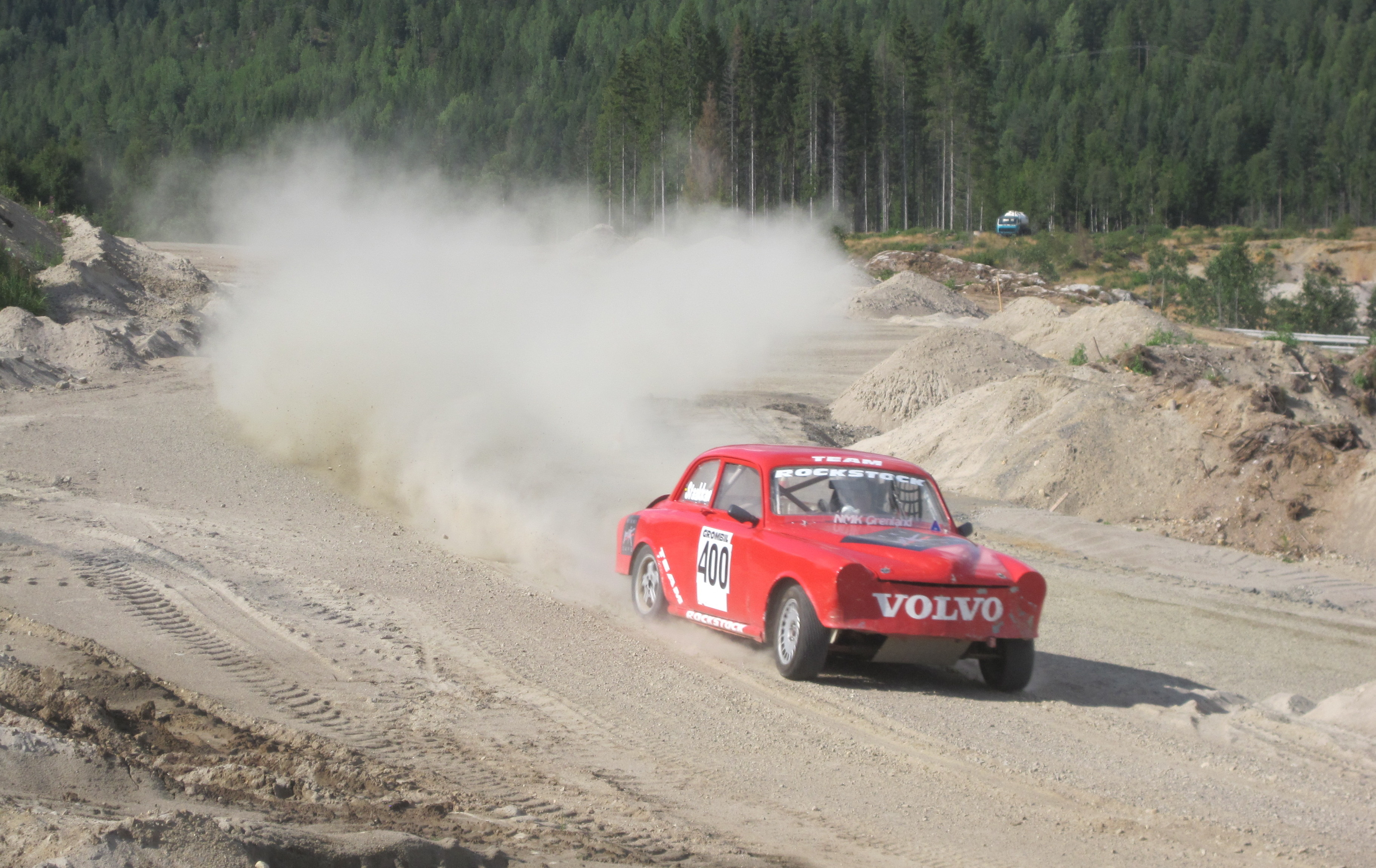 Rallycross on Grenland Motorsportsenter